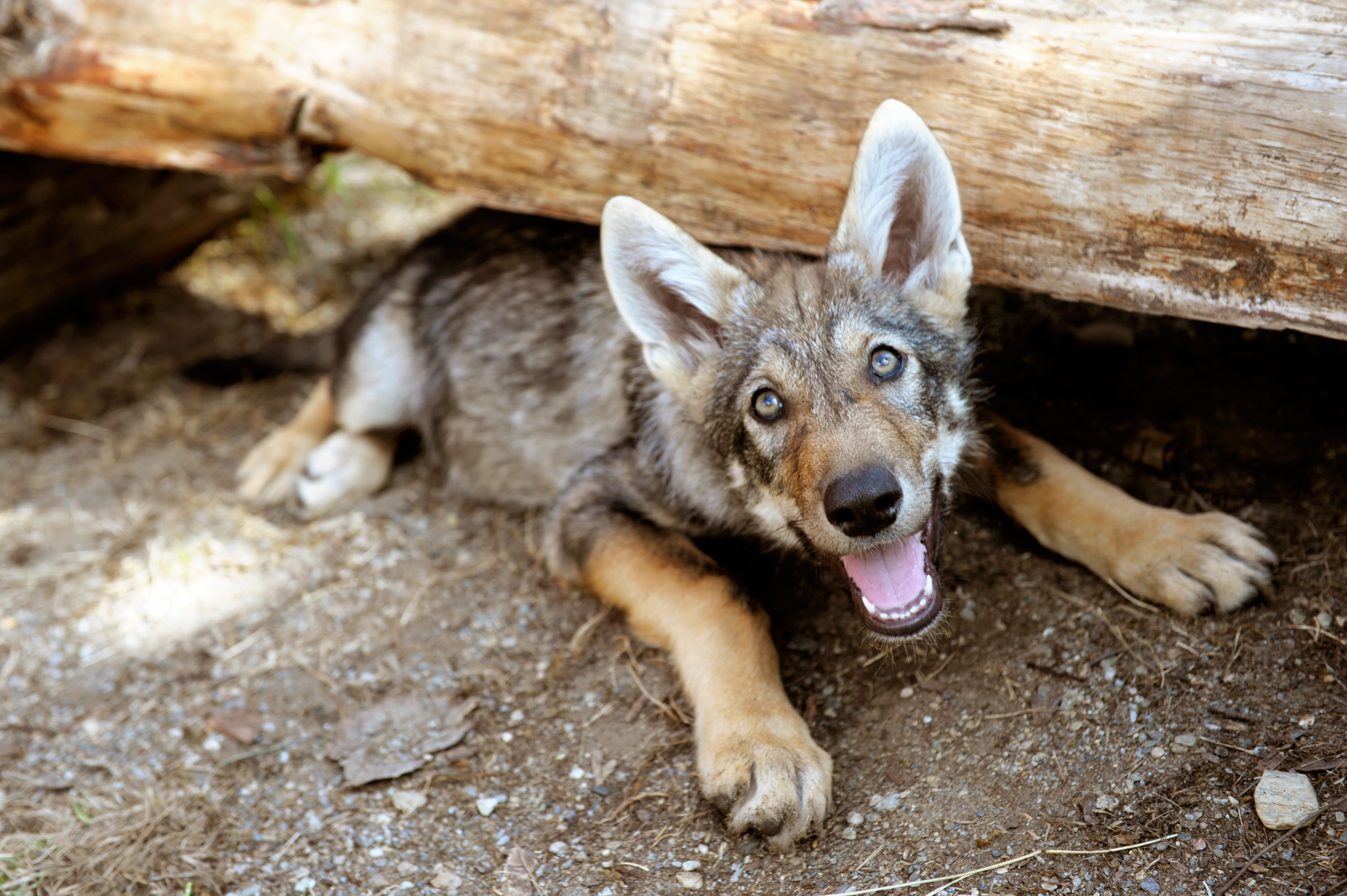 Varg fotograferad på Polar Zoo Norge Keywords: Animals